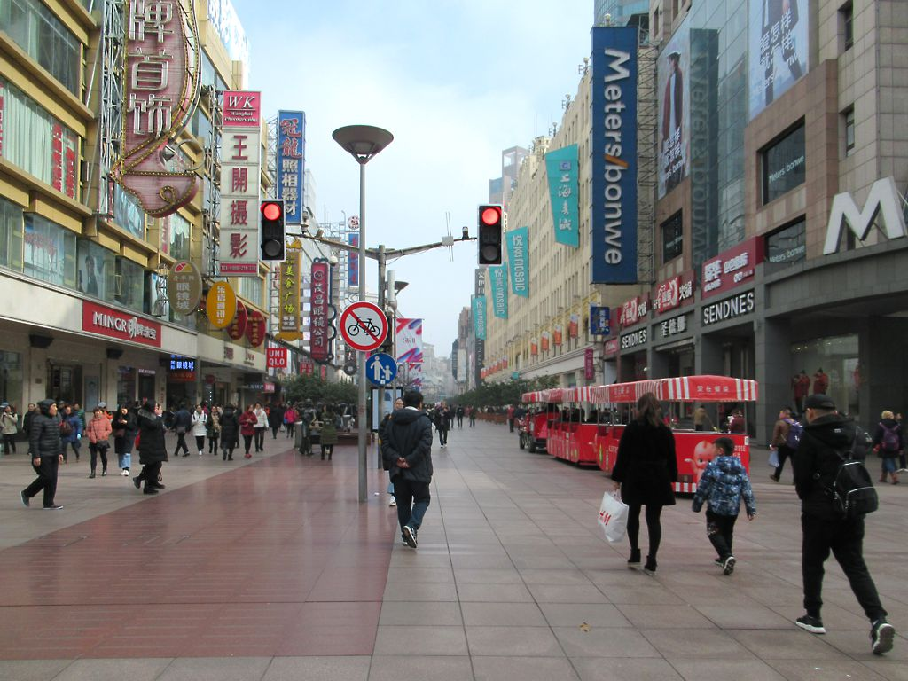 China's first department stores appeared on East Nanjing Road in Shanghai in the 1920s. Most of the street is now fully pedestrianized.